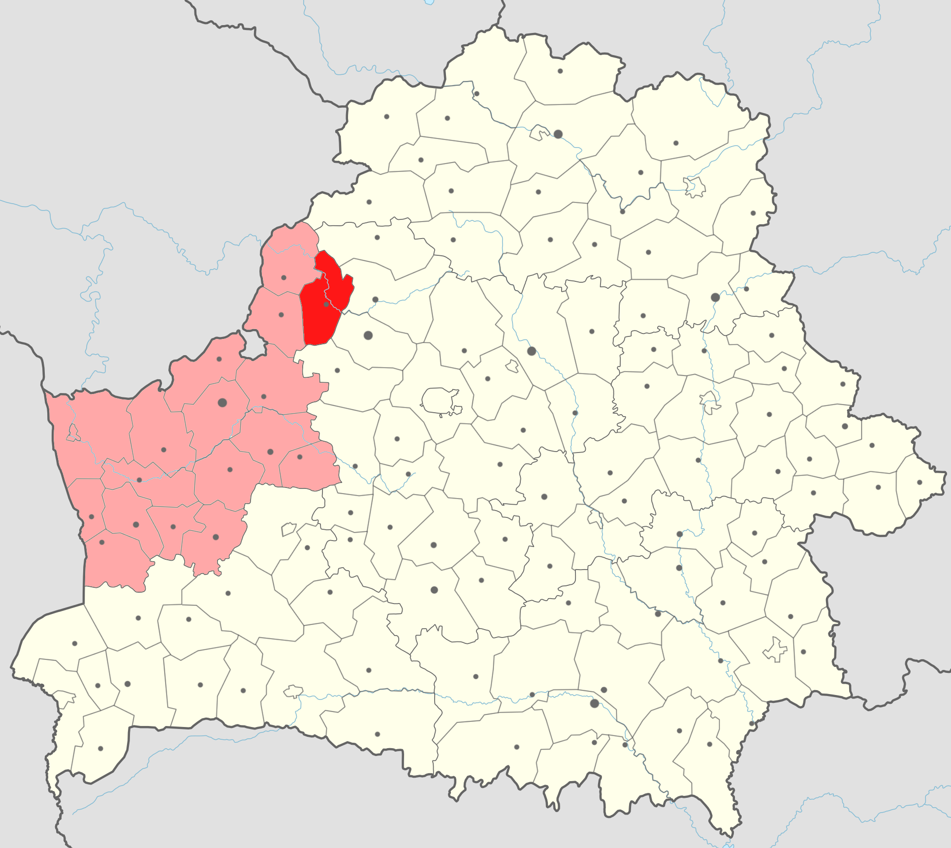 Map of Smarhonski rayon (in red) with Hrodna voblast' (in light red) on the map of Belarus.